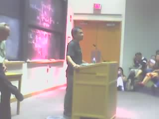 Author Haruki Murakami at the Massachusetts Institute of Technology